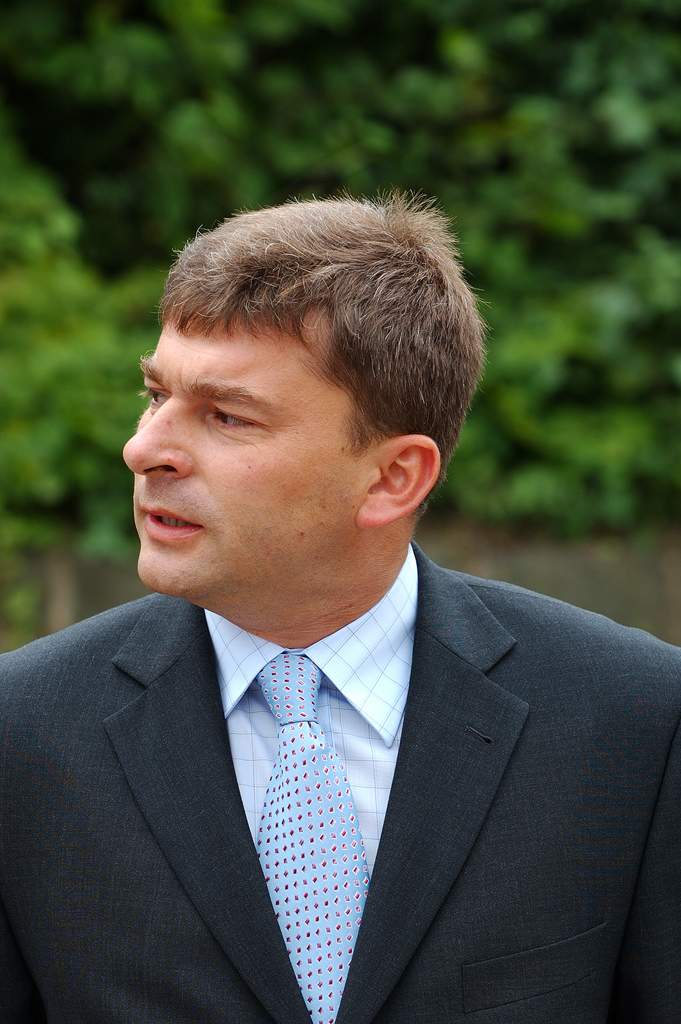 Jan Paroubek, RegioJet' Chief Technical Officer